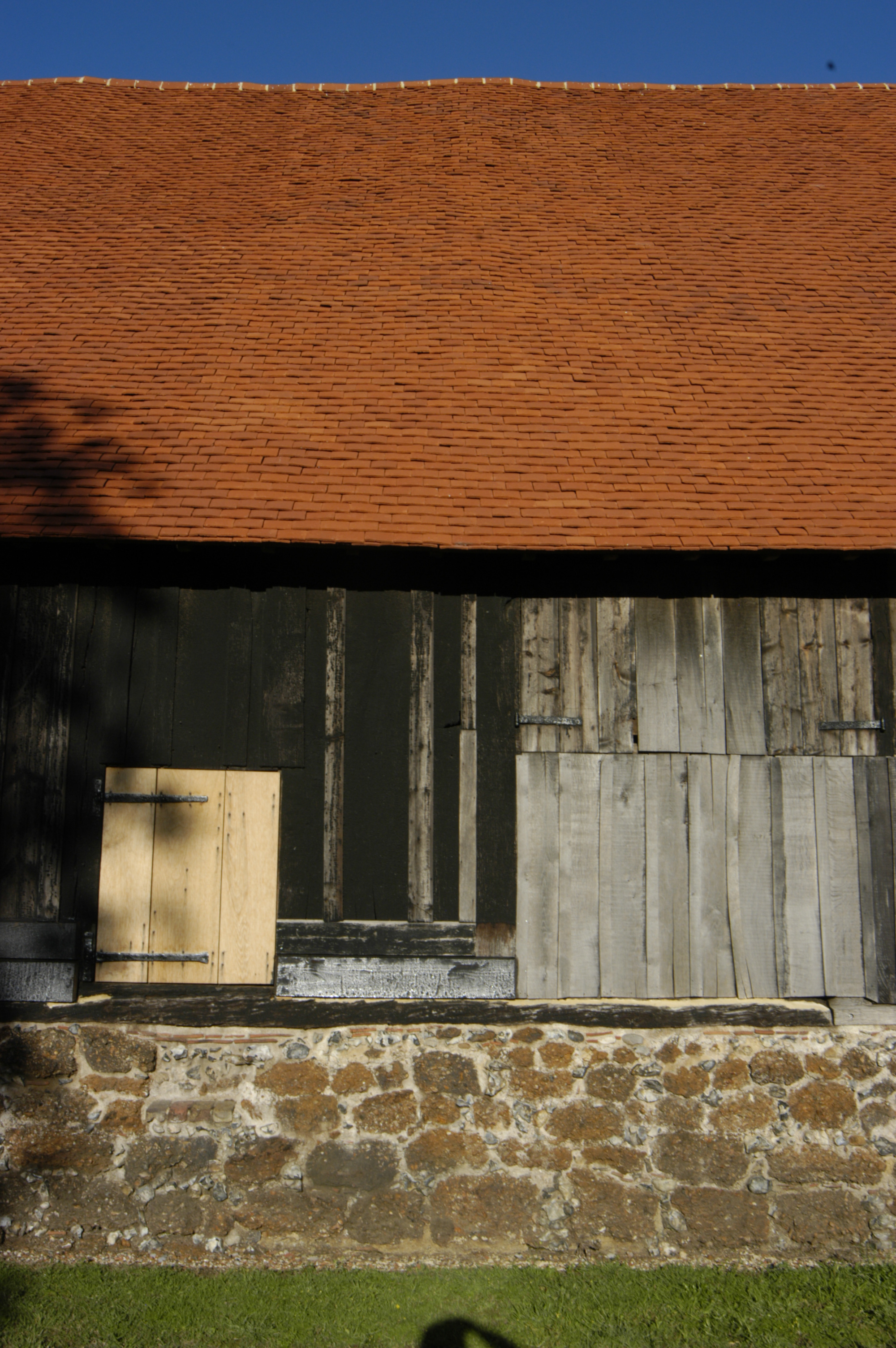 Photograph by R. de Salis (me, Rodolph (talk) 12:50, 20 July 2015 (UTC)) of a section of the western side of the Harmondsworth Great Barn, July 2015.